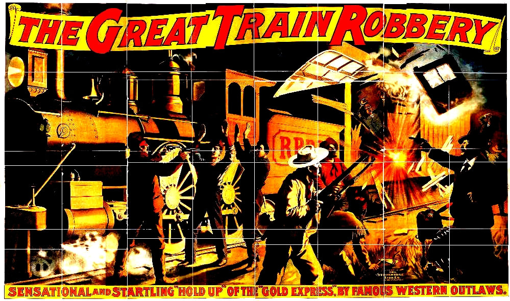 Poster of "The Great Train Robbery"